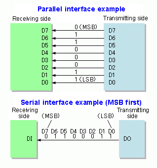 Parallel and Serial Tranmission